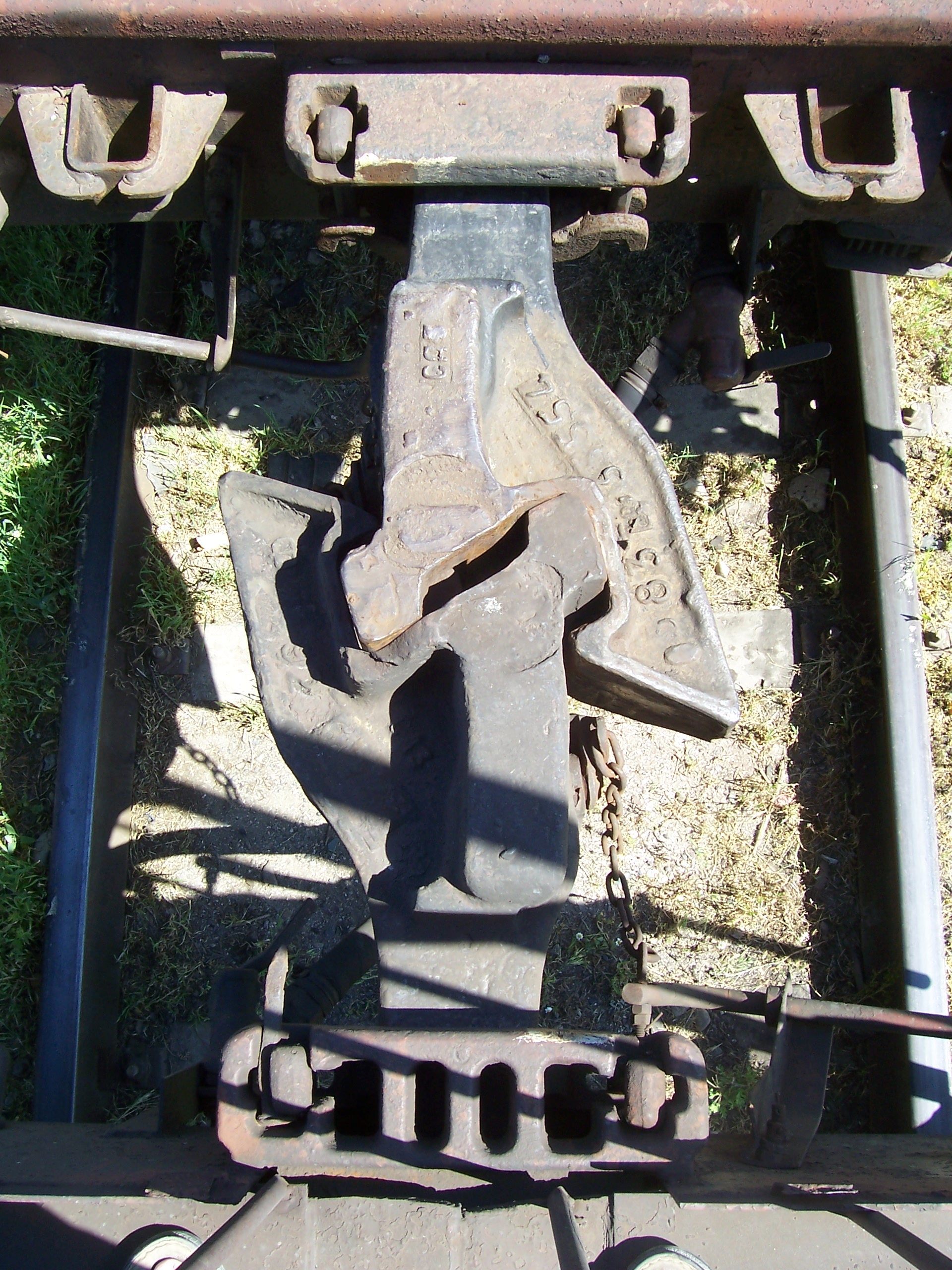 A russian SA-3 railway coupler of a goods wagon.